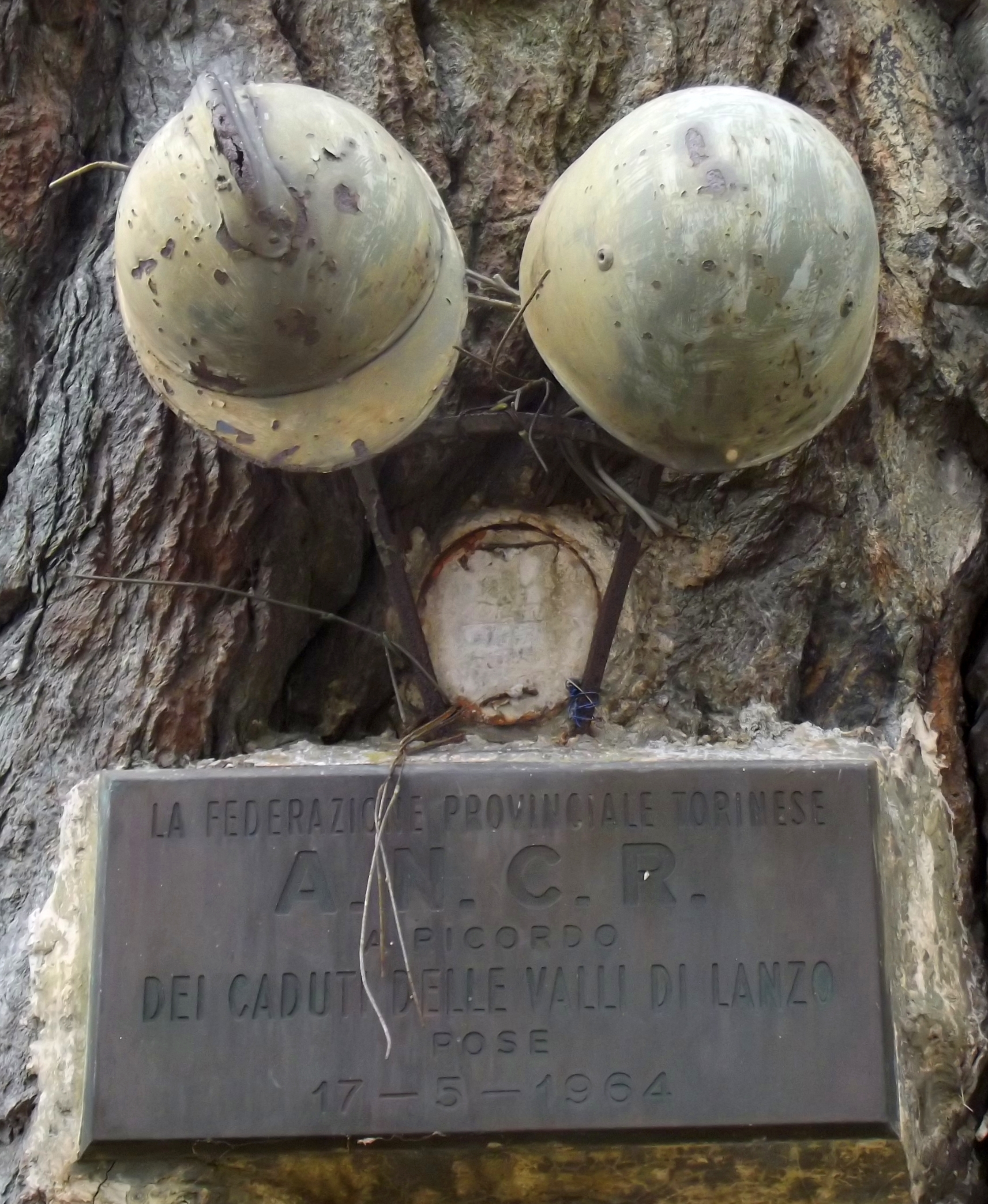 Lanzo Torinese (TO, Italy): memorial plaque of ANCR (Associazione Nazionale Combattenti e Reduci)